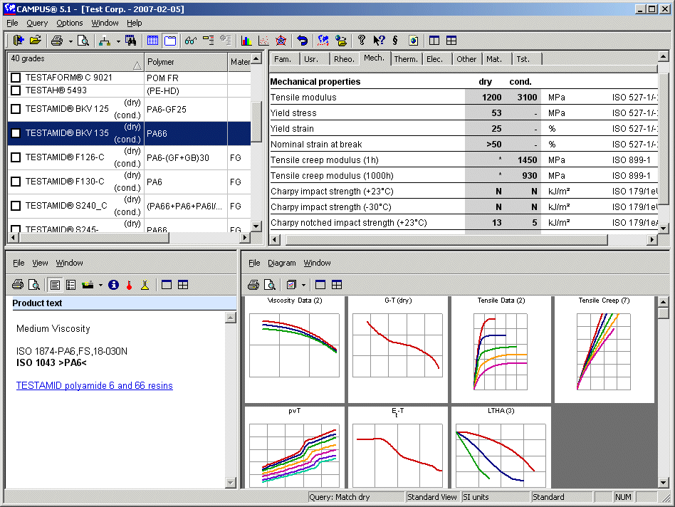 Screenshot from CAMPUS plastics database.